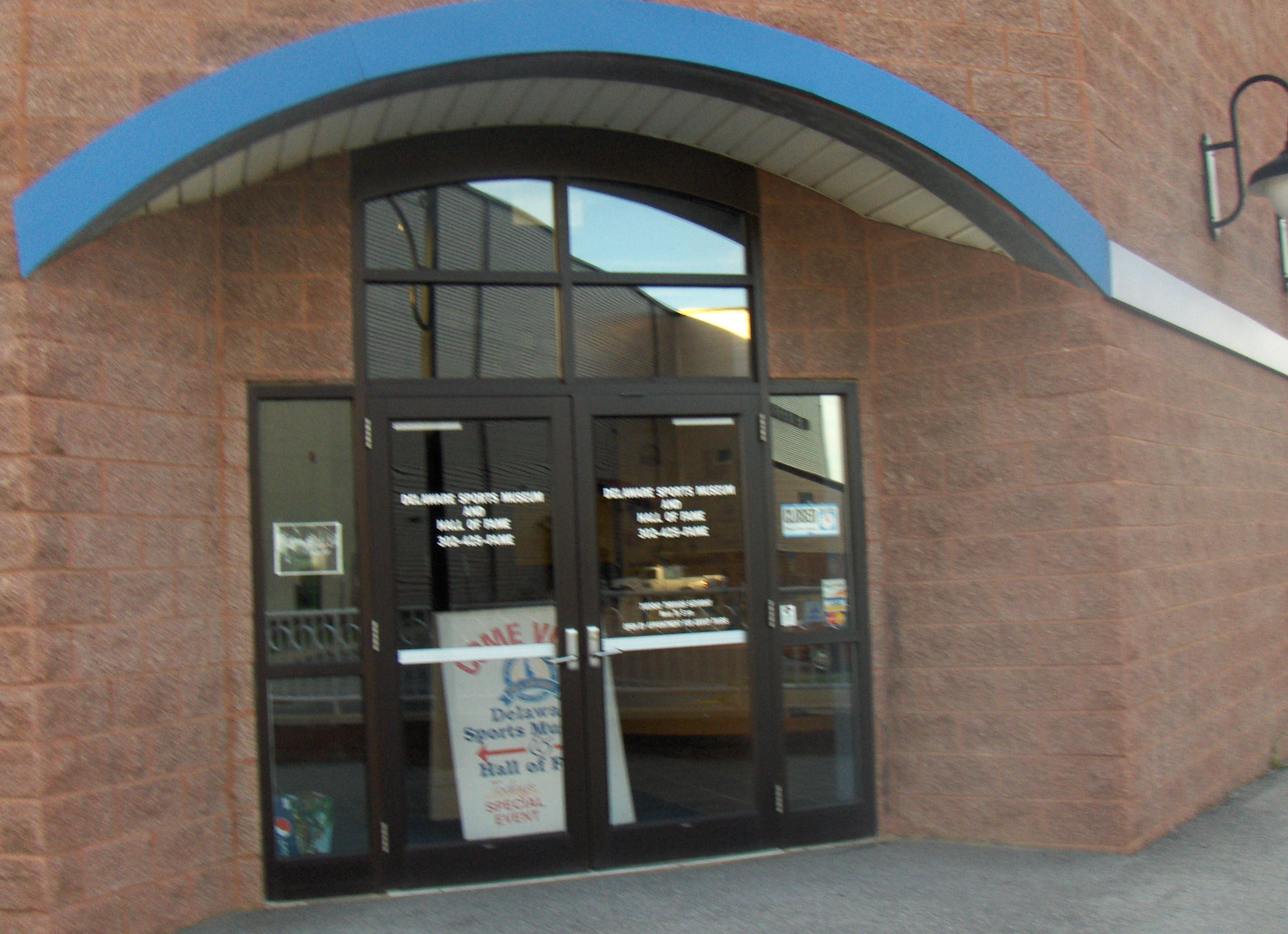 Delaware Sports Museum and Hall of Fame at Frawley Stadium where the Blue Rock baseball team plays. Located on the Christina Riverfront in Wilmington, Delaware.